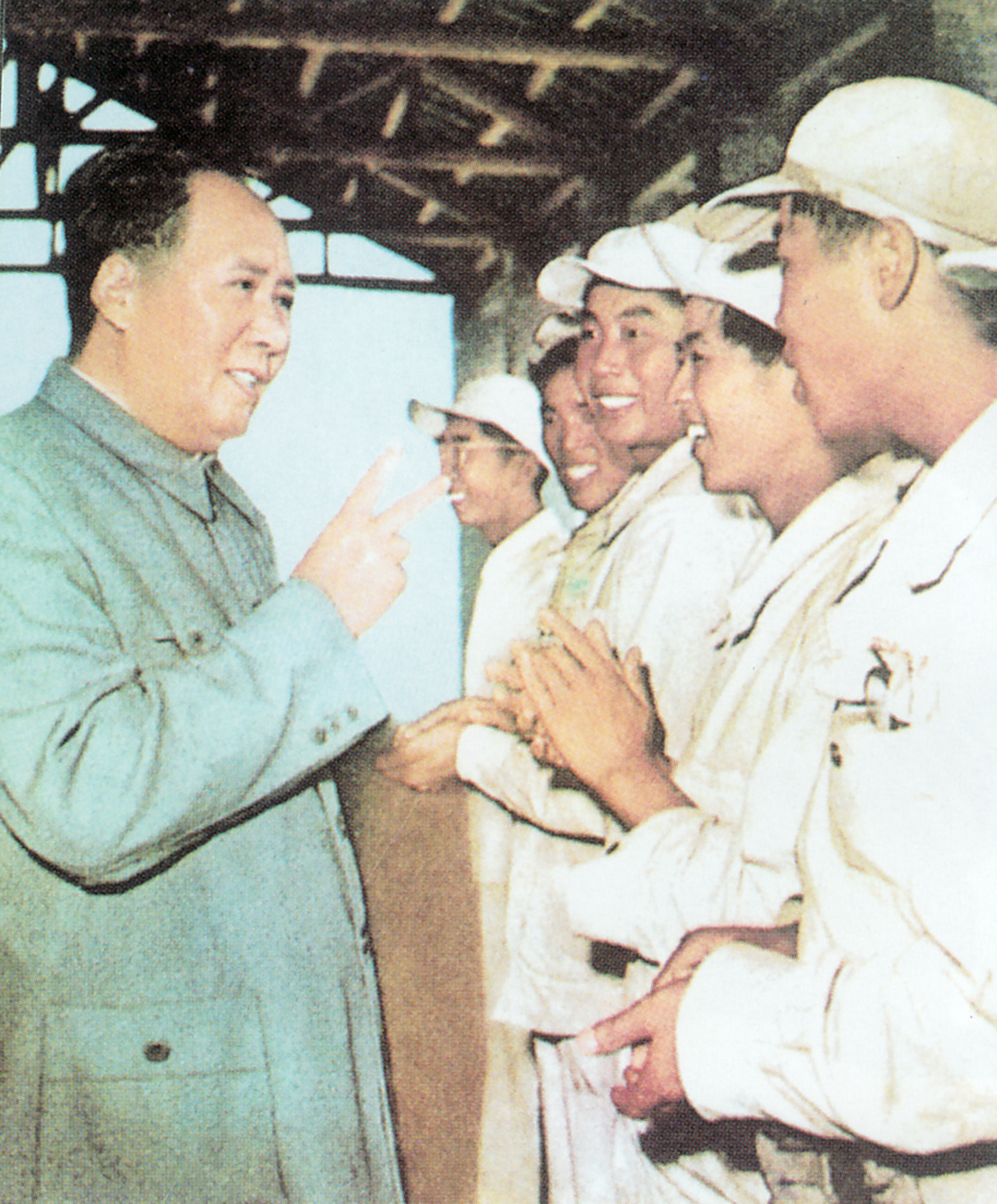 Photo of Mao Zedong with workers, from Quotations from Chairman Mao Tse-Tung